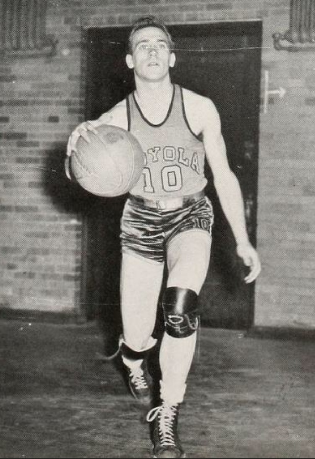 Loyola University Chicago Ramblers basketball player Wibs Kautz from the 1937 “Loyolan” yearbook.